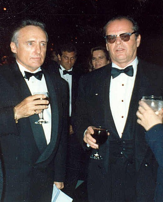 Dennis Hopper and Jack Nicholson at the 62nd Academy Awards 3/26/90